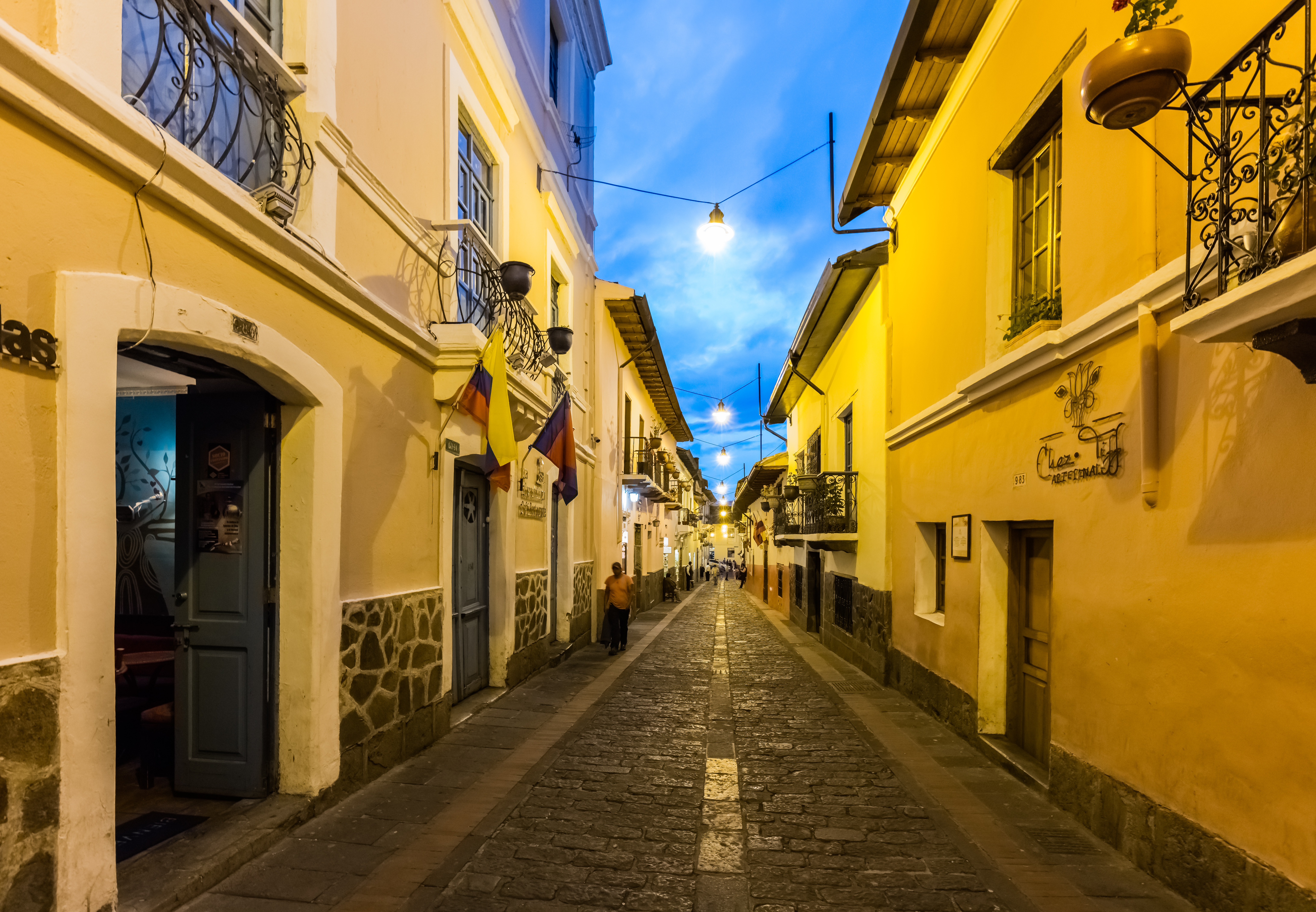 La Ronda street, Quito, Ecuador